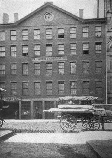 Category:Custom House (built 1810) on Custom House Street, in Boston, Massachusetts. Nathaniel Hawthorne worked here ca.1839-1840.